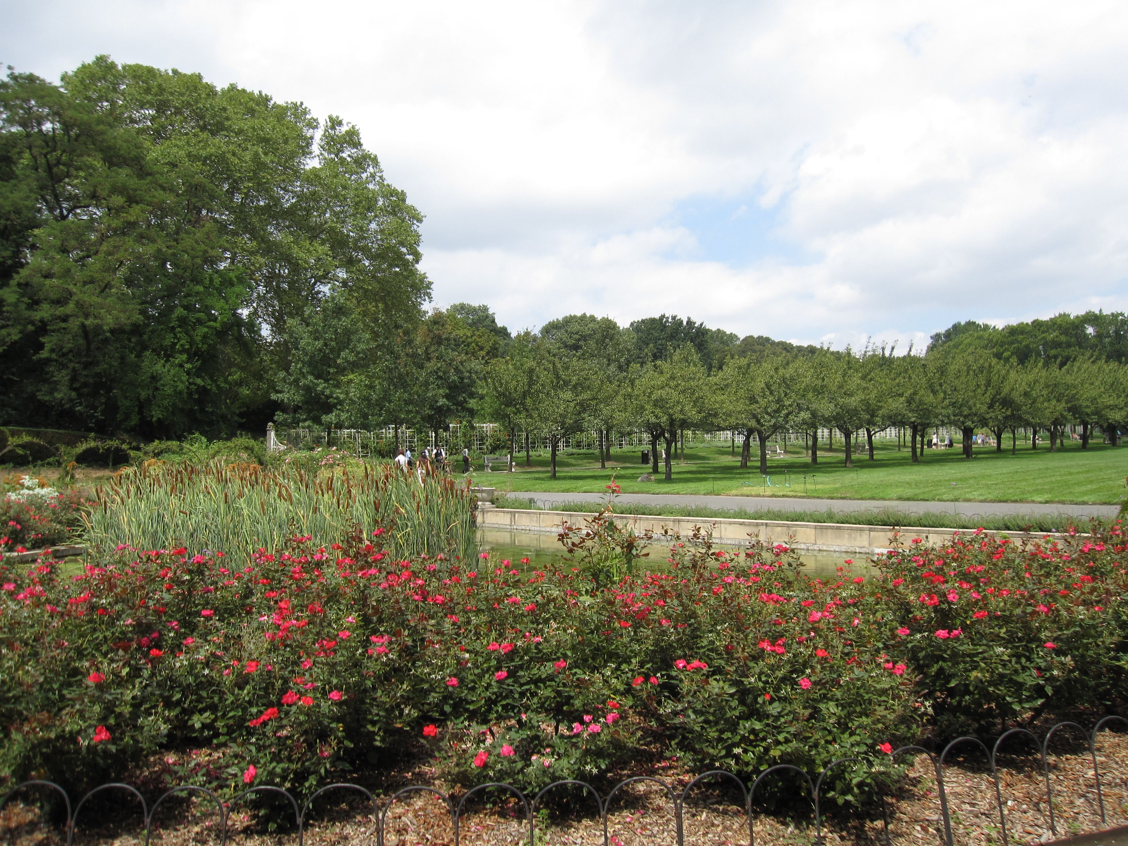 Brooklyn Botanic Garden